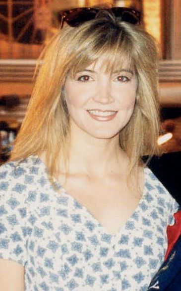 Crystal Bernard at the Emmy rehearsal 9/10/94. Permission granted to copy, publish, broadcast or post but please credit "photo by Alan Light" if you can